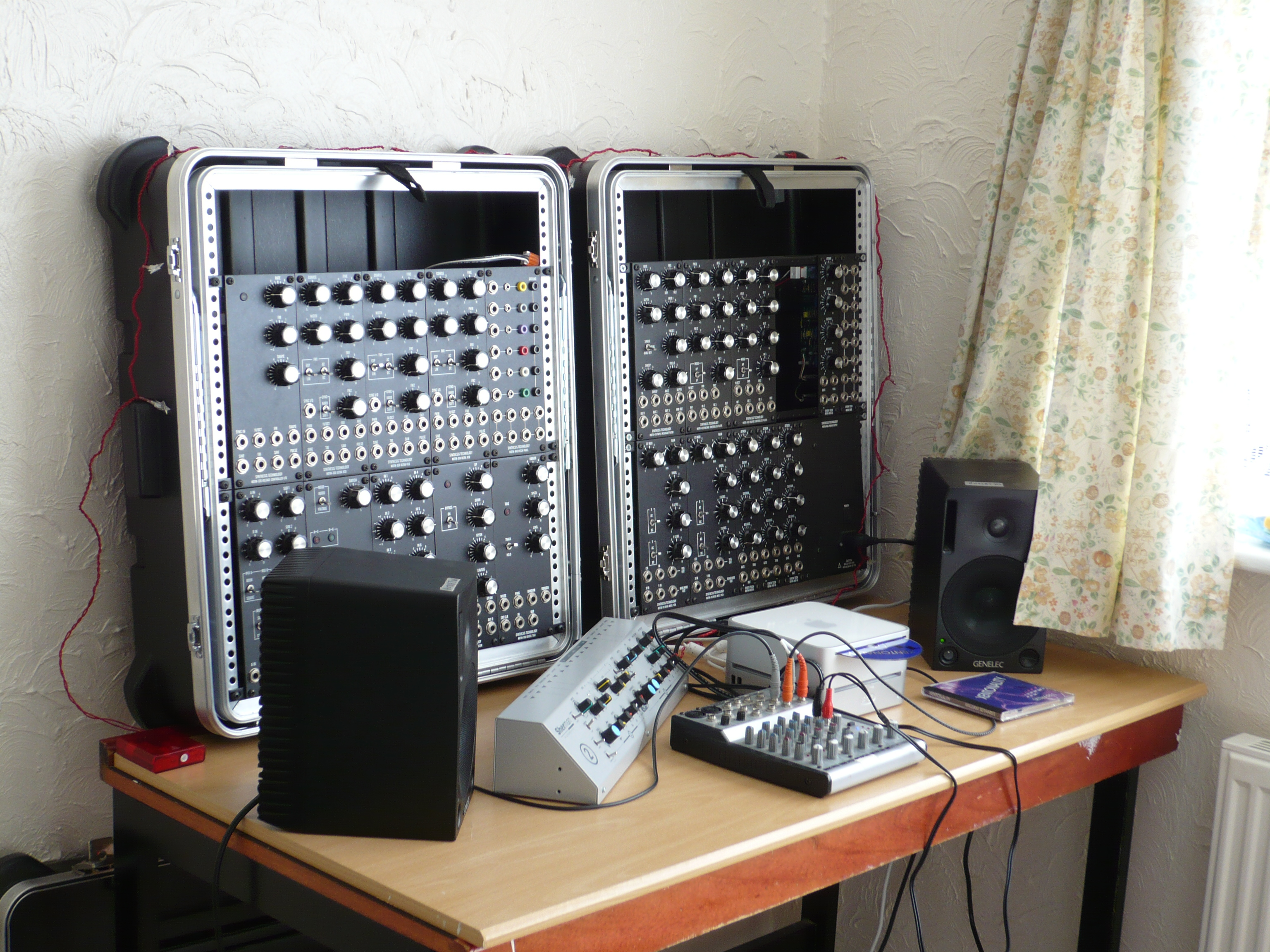 I set up my synthesizer at my desk, with a small server, mixer and some speakers. It looks dead sexy, but i can't actually work at it, as there's no room for my laptop. 4 October 2007 Synthesis Technology MOTM Genelec 1029A SHERMAN Filterbank V2 Behringer Eurorack UB1002 Mac mini